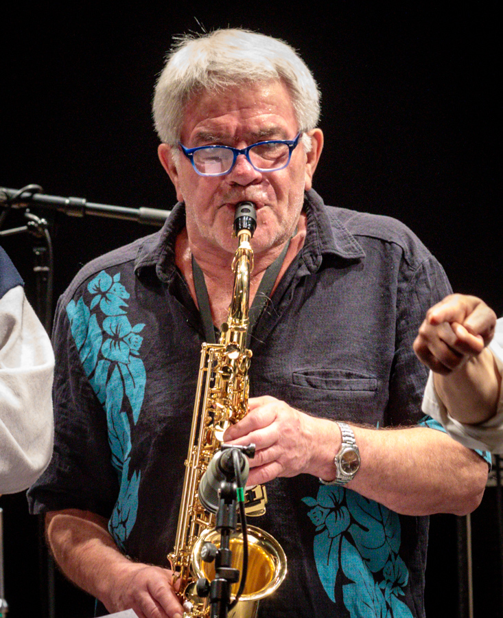 Carl Magnus Neumann with The Organ Club «Club7 revival» at Cosmopolite in Soria Moria. The concert took place on 26. October 2017. Lineup: Little Earl Wilson (vocal), Susanne Fuhr (vocal), Calle Neumann (saxophone), Vidar Johansen (saxophone), Erik Wesseltoft (guitar), Kjell Larsen (guitar), Brynjulf Blix (organ), Miki N`Doye (percussion), Bugge Wesseltoft (organ), Sveinung Hovensjø (bass guitar), Bjørn Jensen (drums) and Charles Mena (drums).